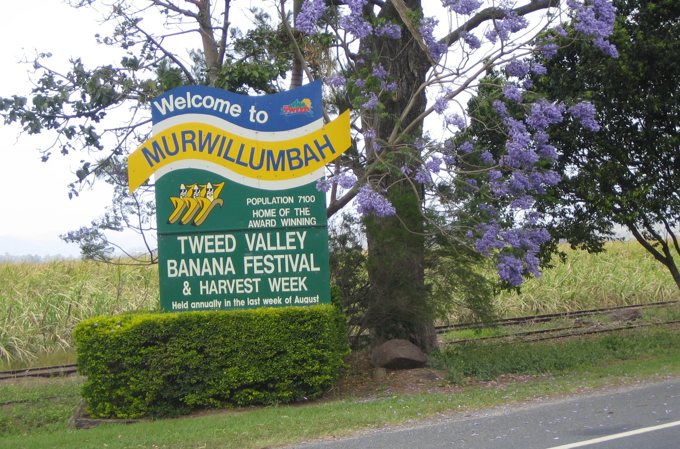 Town welcome sign, Murwillumbah, New South Wales